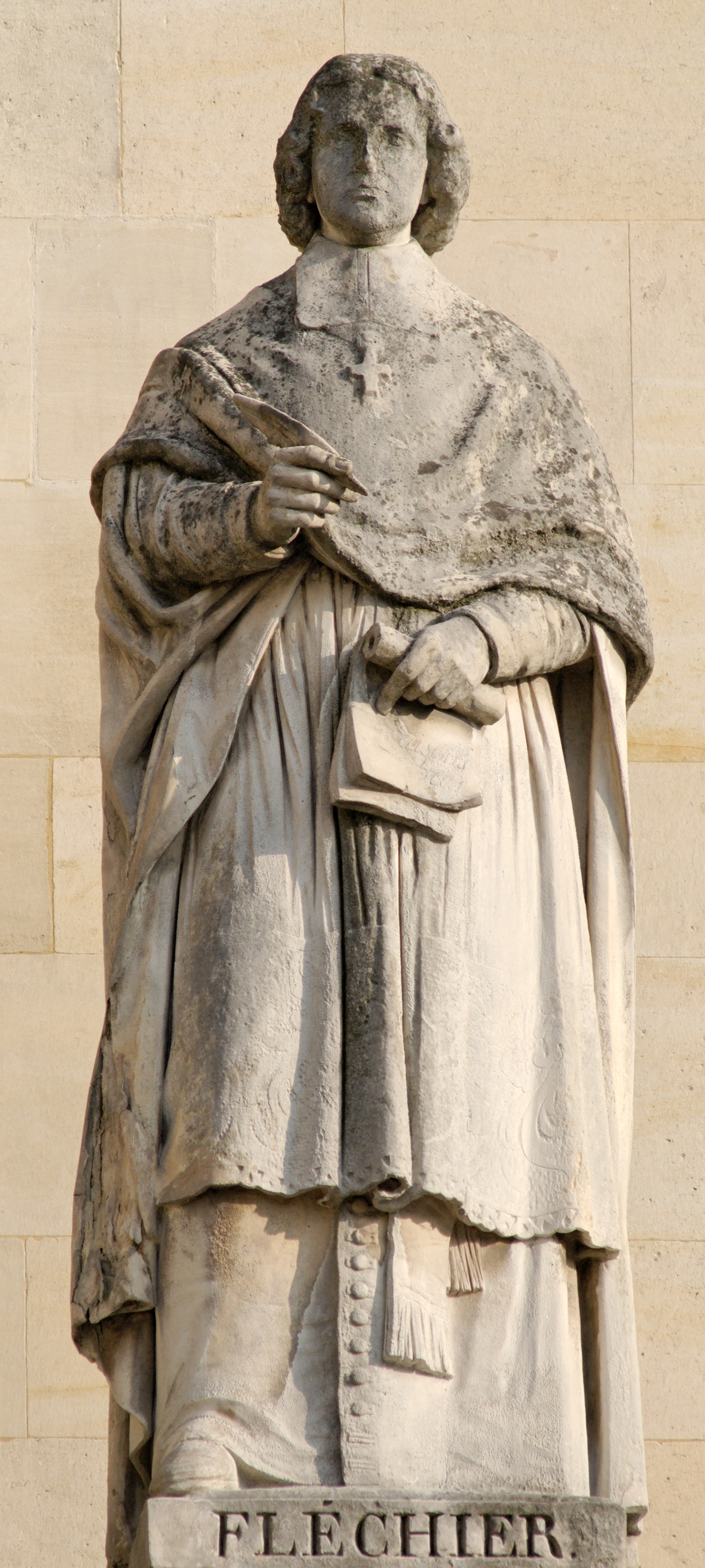 Esprit Fléchier by François Lanno. Stone, ca. 1853. 9th statue from Pavillon Colbert to Pavillon Sully, Cour Napoléon in the Louvre.